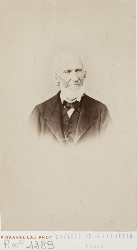 Pierre-Adolphe Lesson (1805-1888)